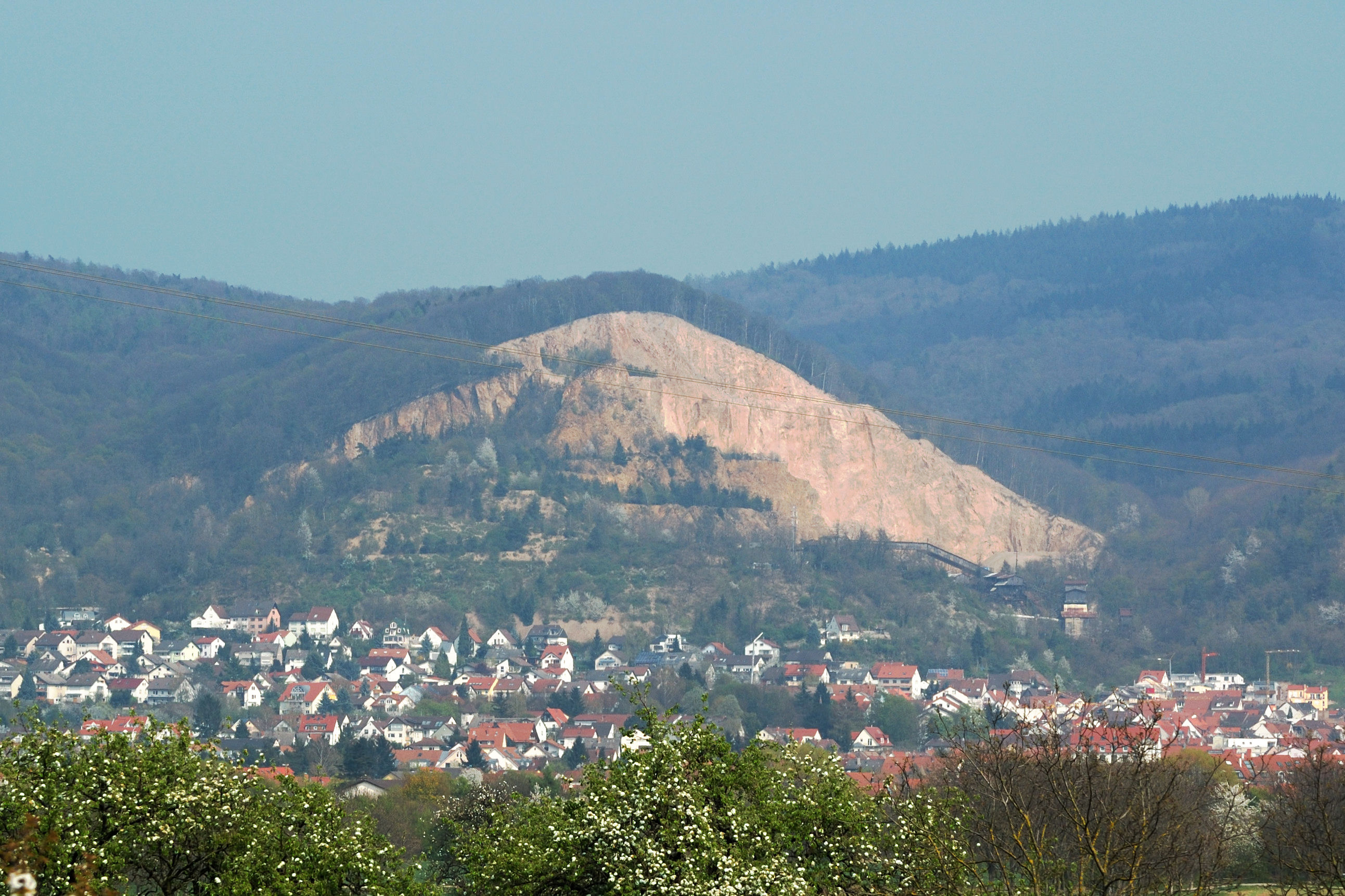 Porphyry quarry in Dossenheim, Germany. Road shot from A 5 highway.